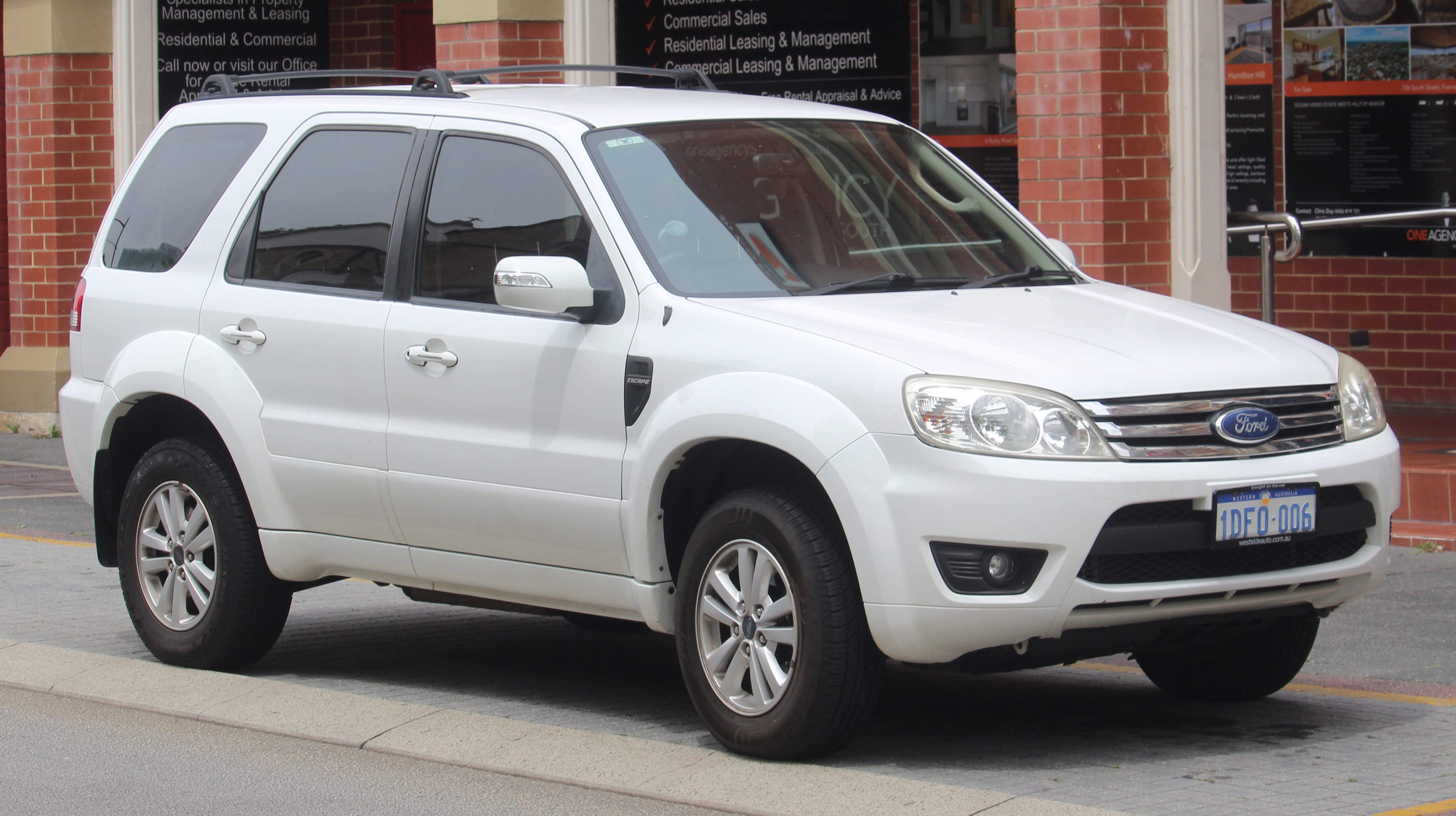 2009 Ford Escape (ZD) 2.3 wagon. Photographed in Fremantle, Western Australia, Australia. This is the pre-facelift version of the ZD as identified by the chrome bars. I don't see them much, these must have either sold badly or isn't around.